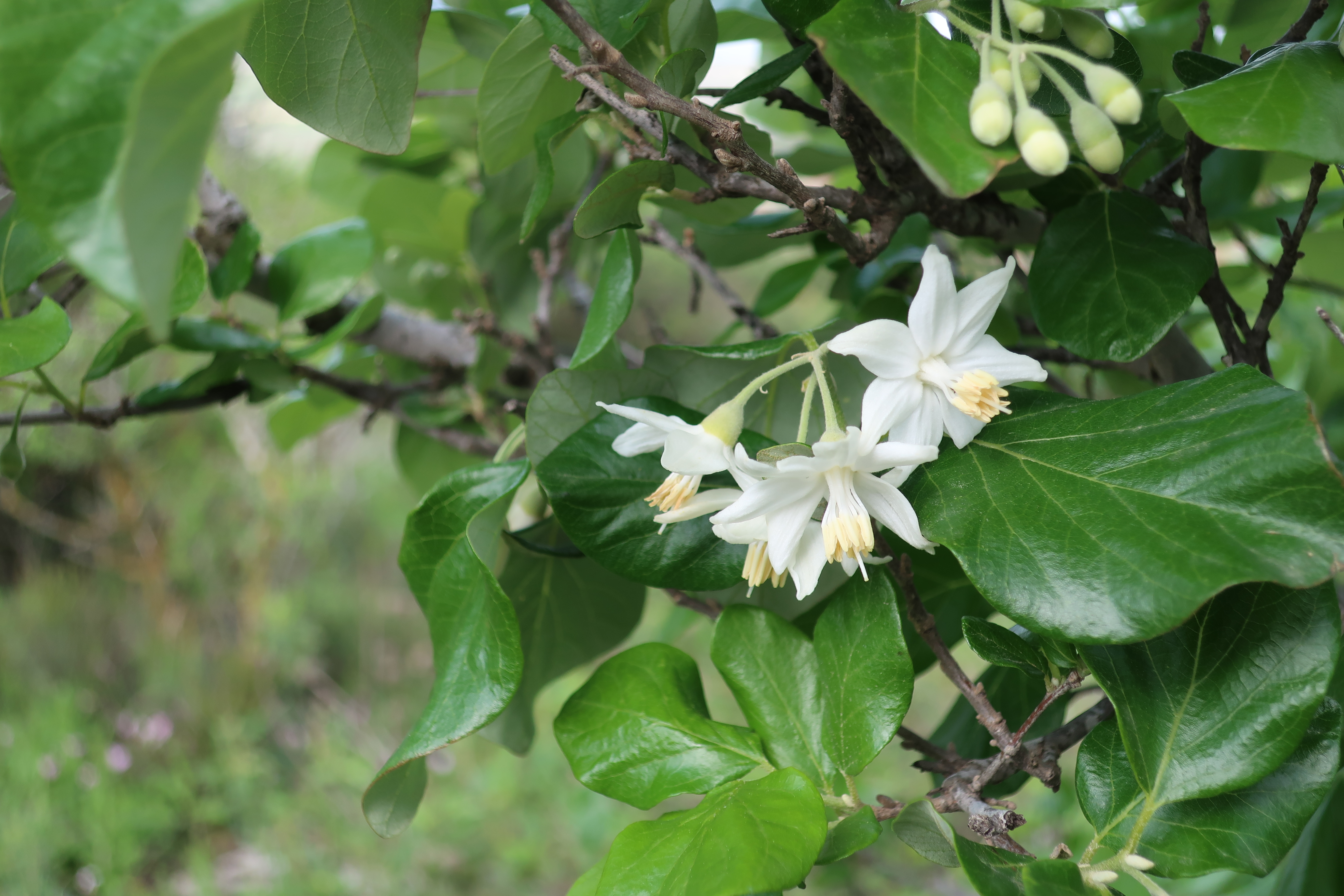 White flowering blossoms of the Styrax officinalis